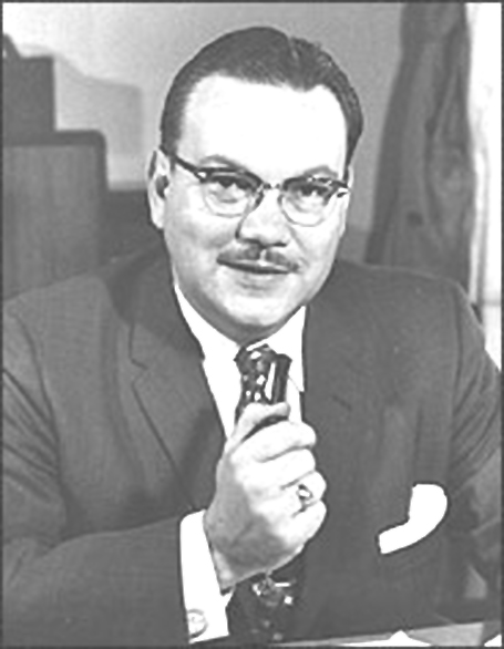 Dr. Francis Forster, former dean of the Georgetown University School of Medicine and a founder of the American Academy of Neurologists